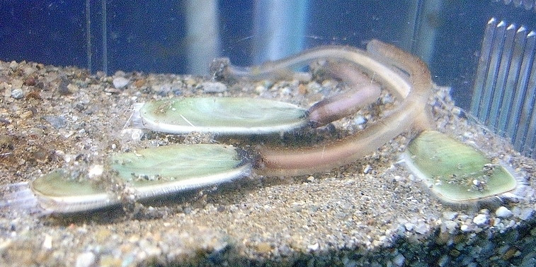 Sorce Page